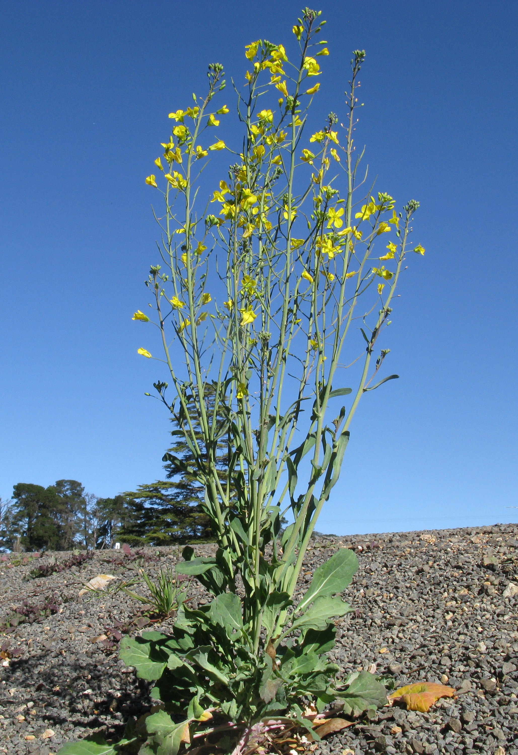 Canola growing in the Merriwa to Denman region in crop and by roadside. Flowerheads infested with aphids. Introduced, cool-season, annual or biennial herb to 1.5 m tall, usually with a strong taproot. Stems are erect and scarcely branched. Leaves are grey-green. Lower leaves are stalked, lyrate-pinnatifid and 5–20 cm long; nerves sparingly bristly. Upper leaves are stem-clasping, sessile and oblong-lanceolate. Flowerheads are racemes. Flowers are bright yellow, with 4 petals and 6 stamens. Fruit are siliquas, obliquely erect, 5–10 cm long, obscurely 4-angled, with a 5–20 mm long, tapering beak. Flowering is from winter to spring.